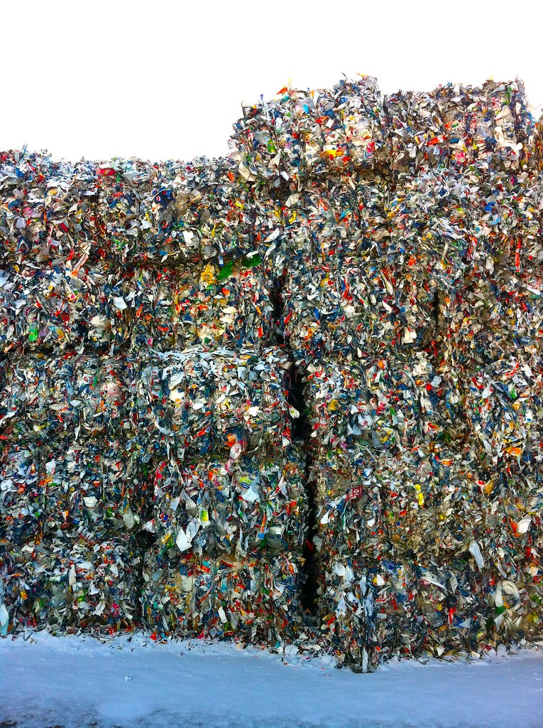 Packed and prepared plastic the picture is from the creativecommons